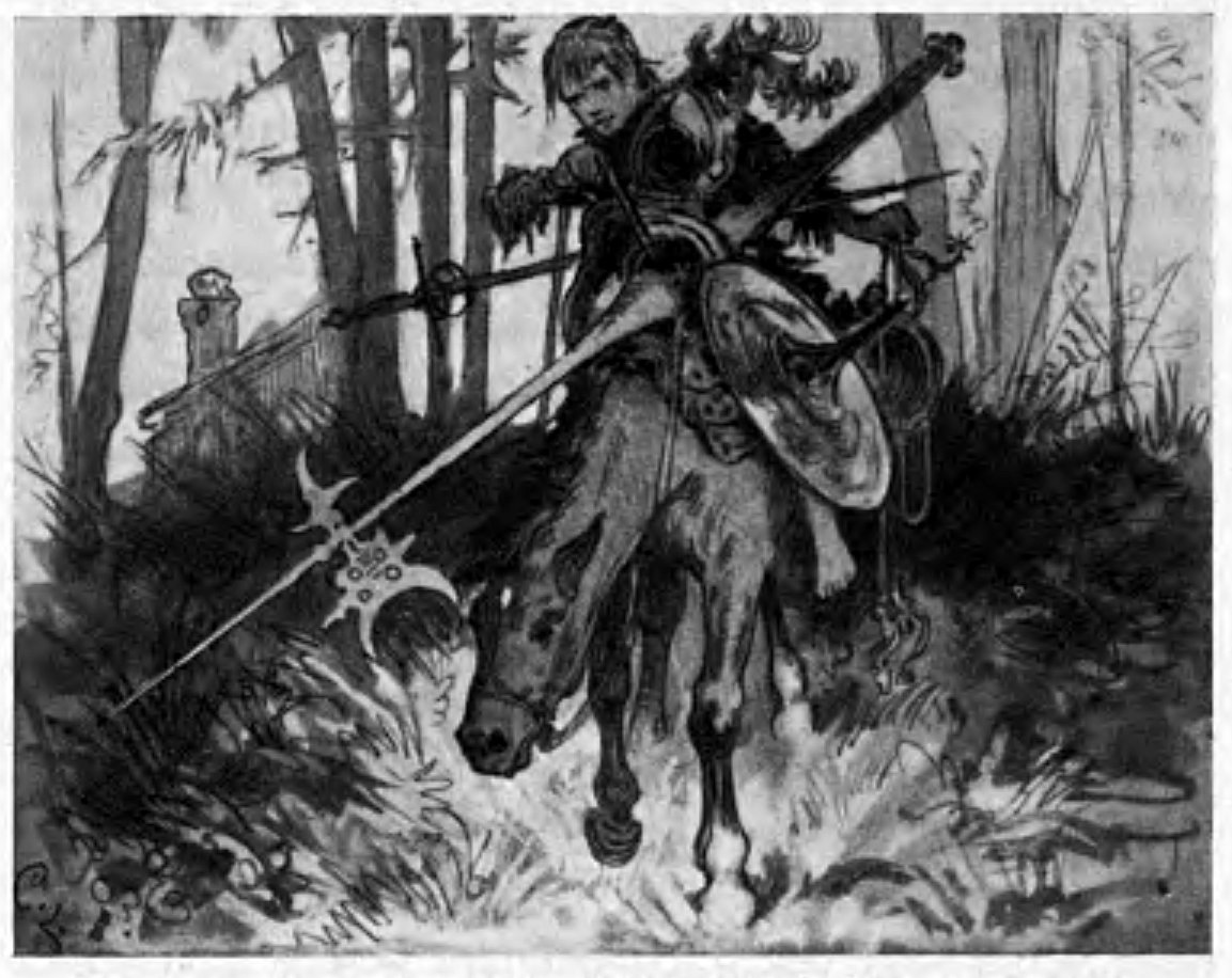 Illustration by Carl Larsson of the book "Folksagor" by Asbjörnsen and Moe, Stockholm 1927